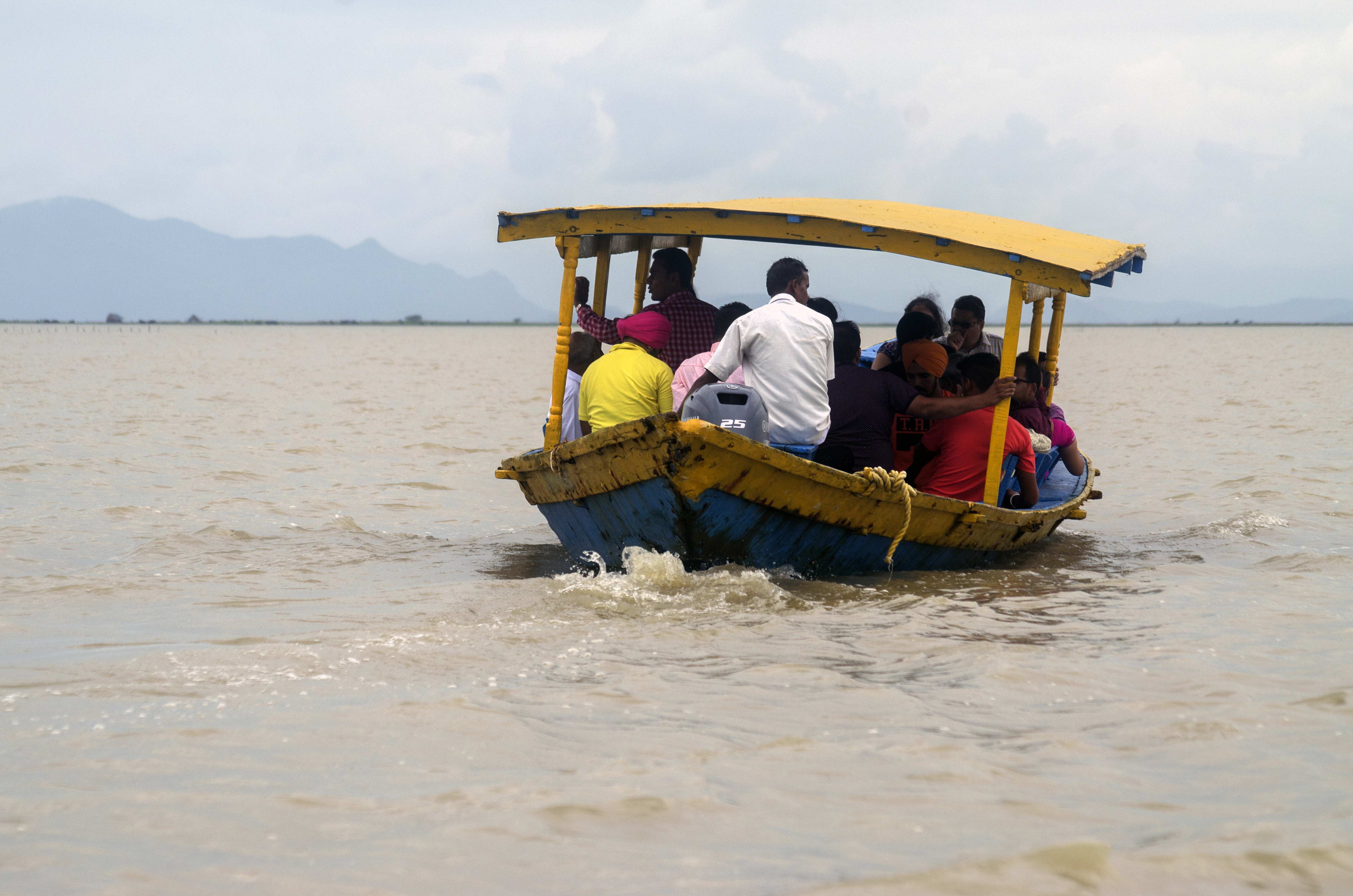 A tourist boat near dolphin point, Satapada, Chilika Lake, Odisha